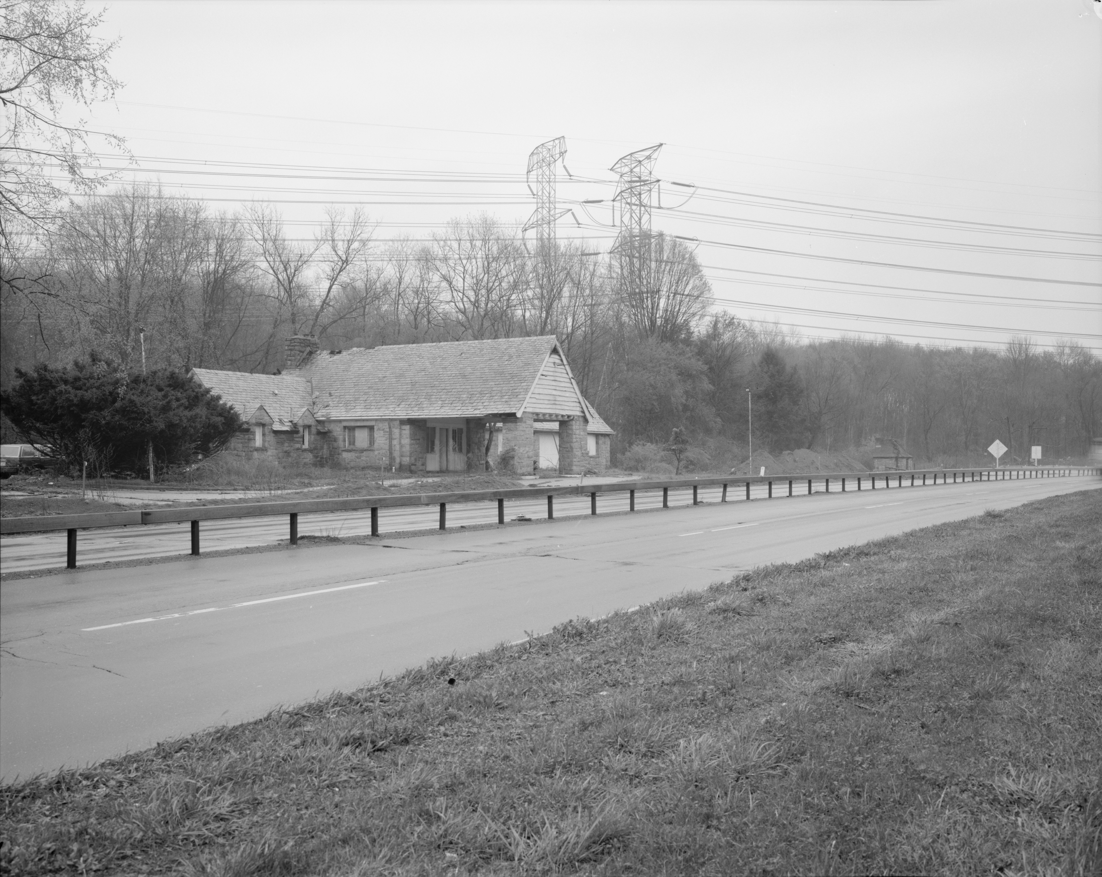 Former Briarcliff Wells Gas Station, Northbound side of the Taconic State Parkway, .6 mile south of Pleasantville Road, Mt. Pleasant, NY.